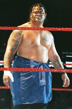 Umaga (real name Eddie Fatu) at a WWE house show